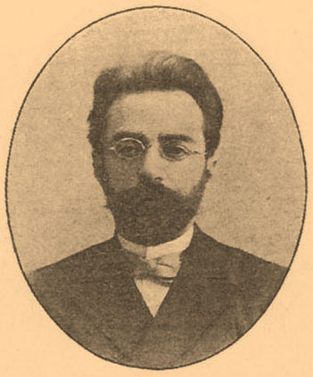 Illustration from Brockhaus and Efron Encyclopedic Dictionary (1890—1907)